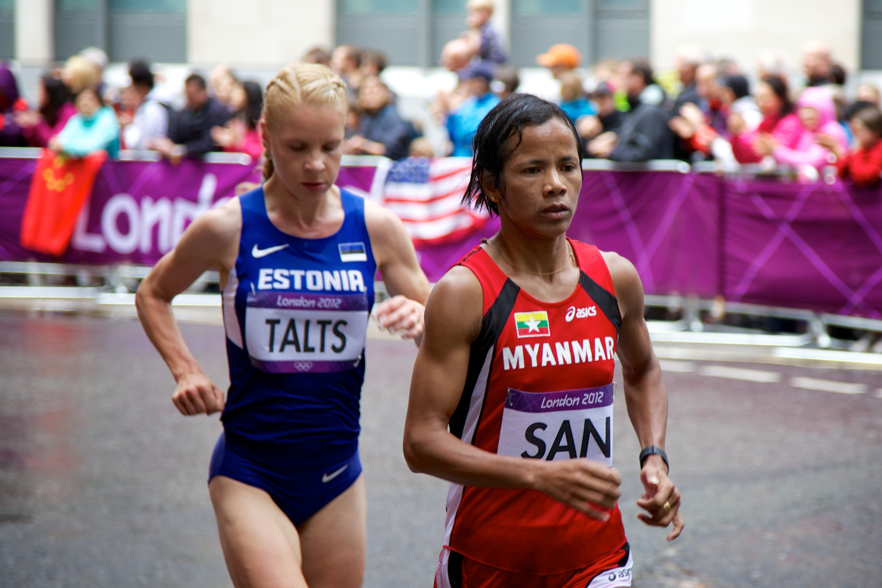 Women's Marathon, Evelin Talts (Estonia), Ni Lar San (Myanmar)